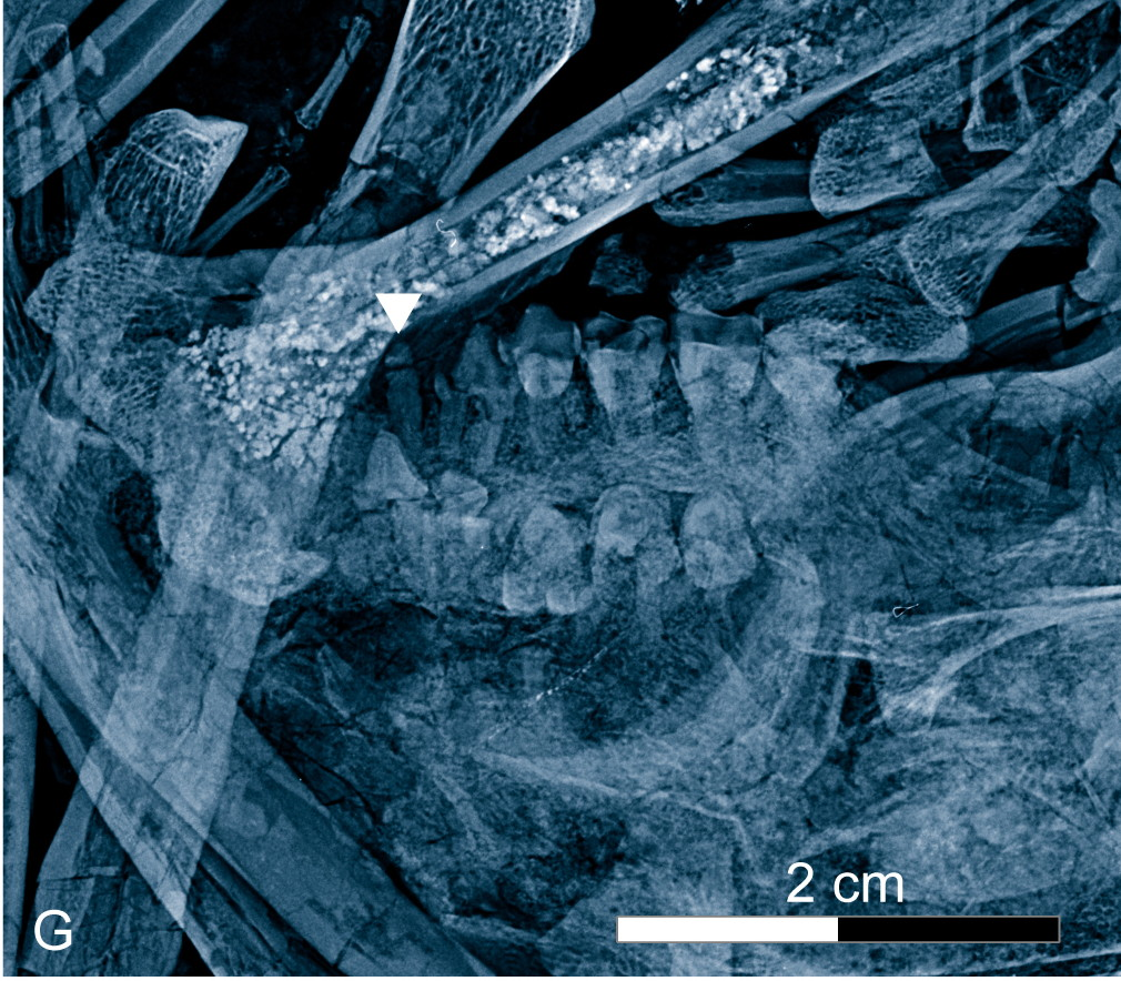 Radiographic image of middle Eocene primate Godinotia neglecta (THALMANN, HAUBOLD & MARTIN, 1989) from the Geiseltal fossil site in Saxony Anhalt, Central Germany. The image shows the holotype specimen (GMH L-2). In the center of the image the maxillae in oblique palatal/lateral view are visible, containing M3-P3s and d, and the small unicuspid and one-rooted P2s. Arrows show the position of P2.